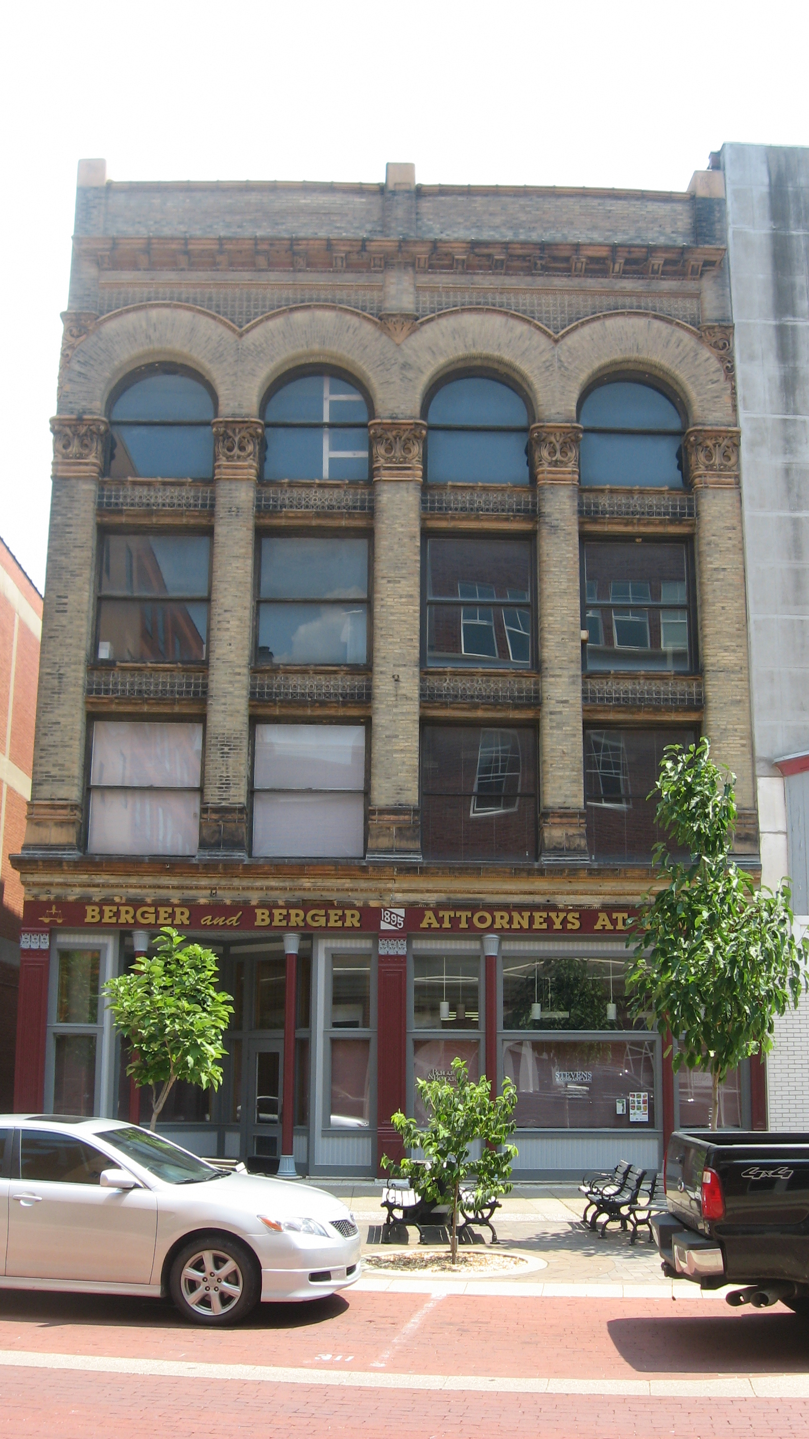 Front of the Ridgway Building, located at 313-315 Main Street in Evansville, Indiana, United States. Built in 1857, it is listed on the National Register of Historic Places.